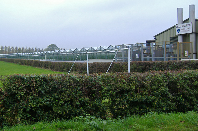 Park Lane Nurseries, Cottingham, East Riding of Yorkshire, England.Substantial area of glasshouses growing salad crops, as seen from the eponymous lane